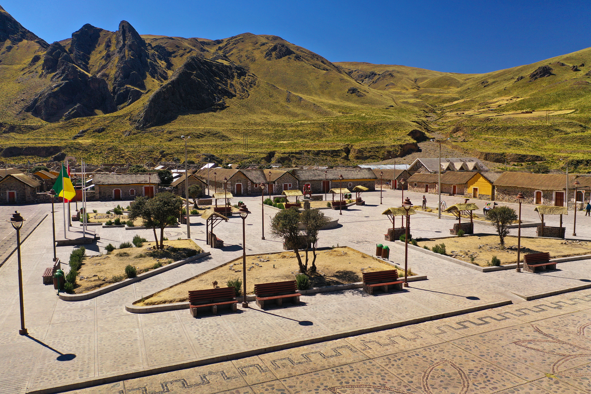 The main plaza of Sibayo with Colca Canyon mountain range in the background.